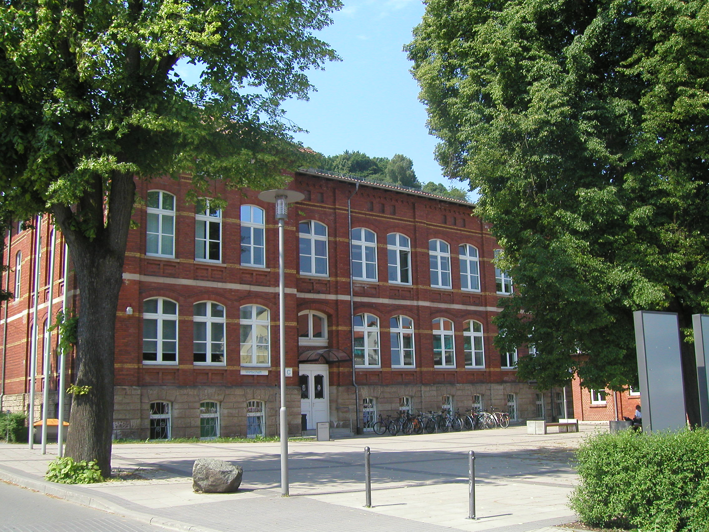 University of Applied Sciences Schmalkalden: building C